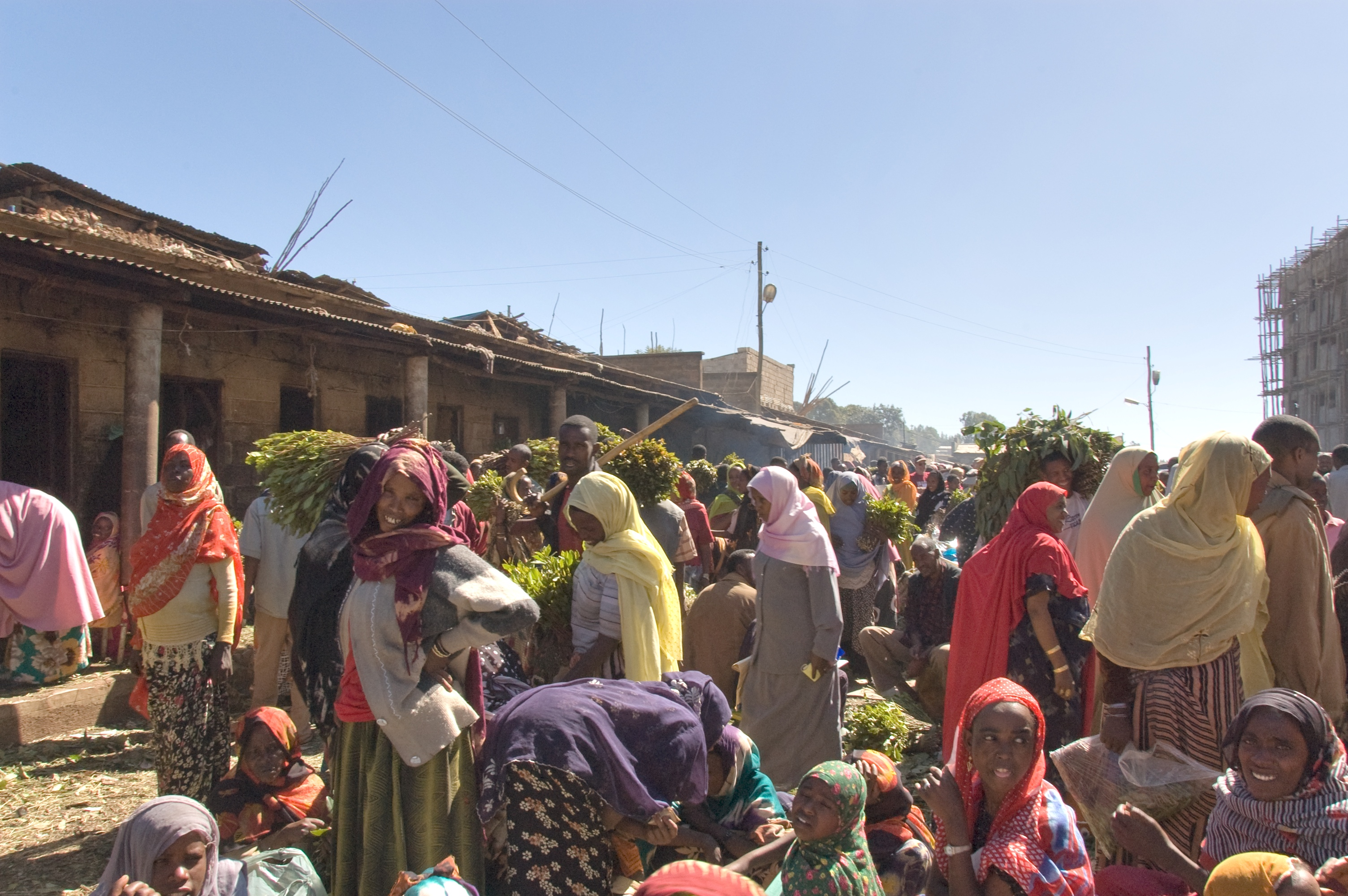 The tropical evergreen plant called "chat" in Ethiopia (Catha edulis, aka qatt, jaad, or khat) has been widely used as a stimulant in east Africa and southern Arabia since antiquity. Chat is legal in several countries, including Ethiopia and some of its neighbors. Chat is illegal in other countries, including the U.S. Chat users prefer to chew the newest leaves from freshly-harvested stems. For this reason, fresh chat stems are bought and sold at daily markets. The market pictured here is near Harar, in southeastern Ethiopia.